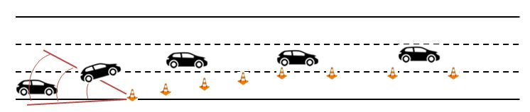 coche2